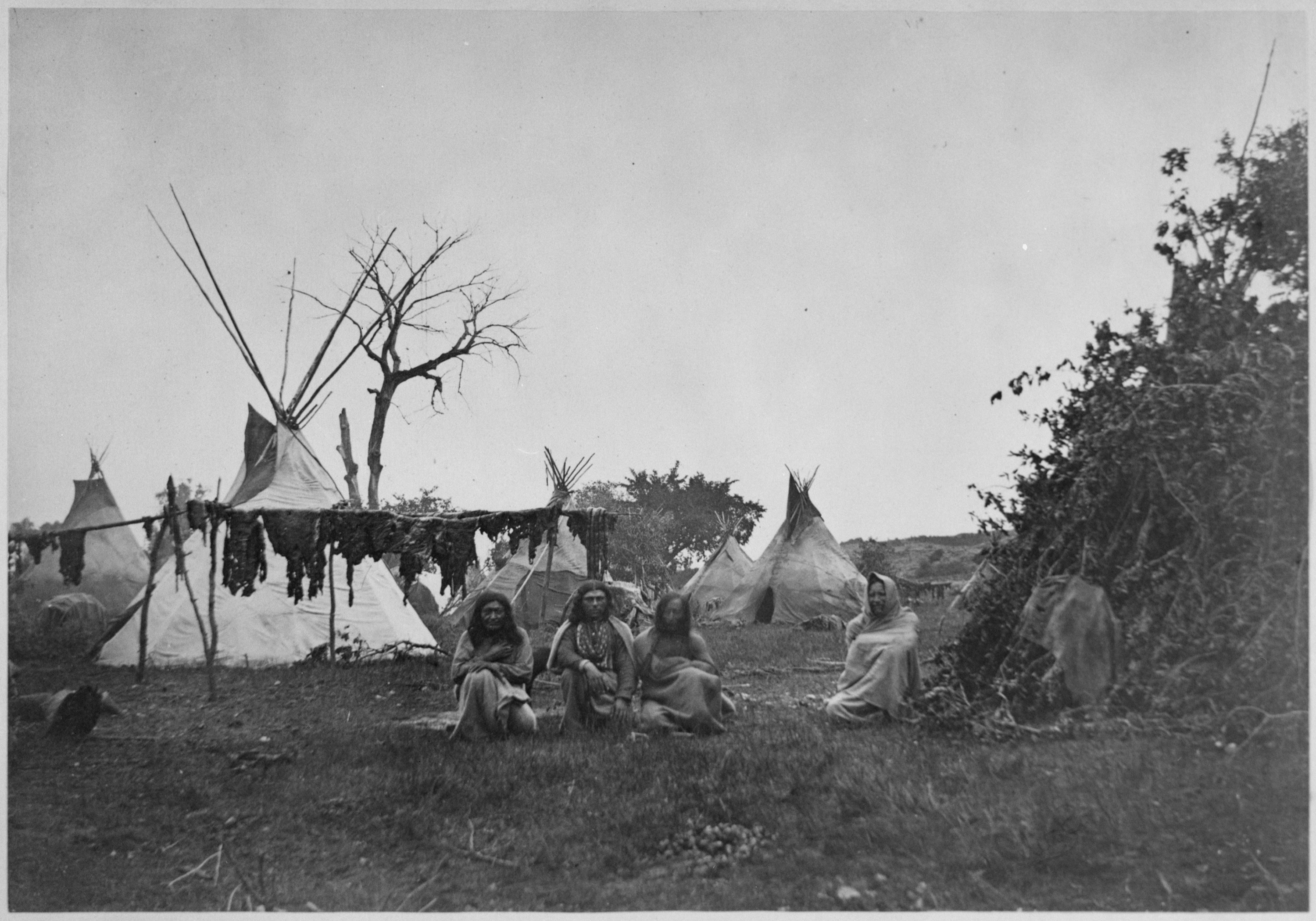 Scope and content: Cheyenne Lodges (pencil notations read "William S. Soule" and "Arapaho Camp near Fort Dodge").